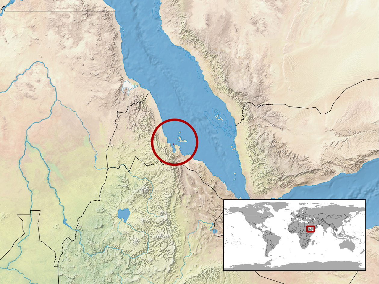 geographic distribution of Echis megalocephalus (Native: Eritrea)